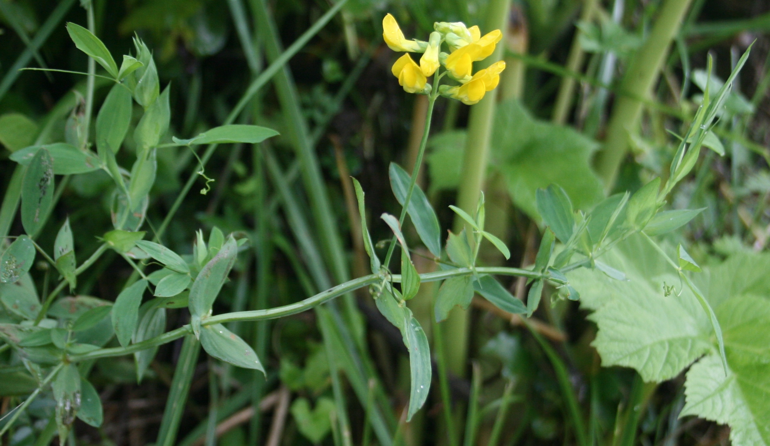 Lathyrus pratensis seen in Mount Ibuki, Japan